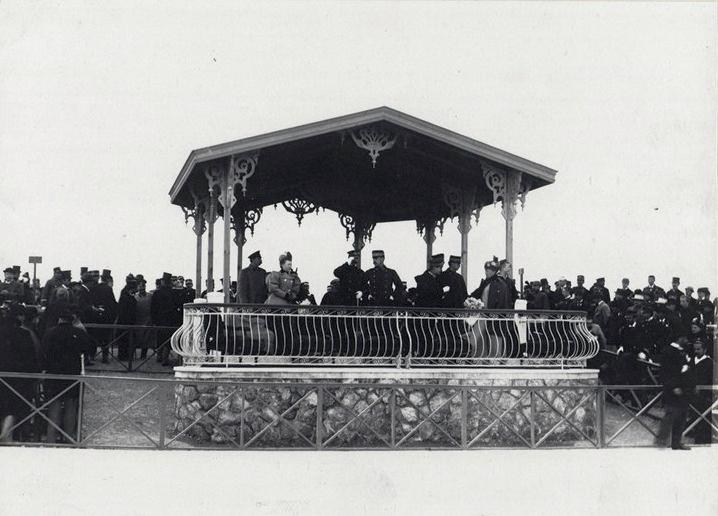 1896 Summer Olympics